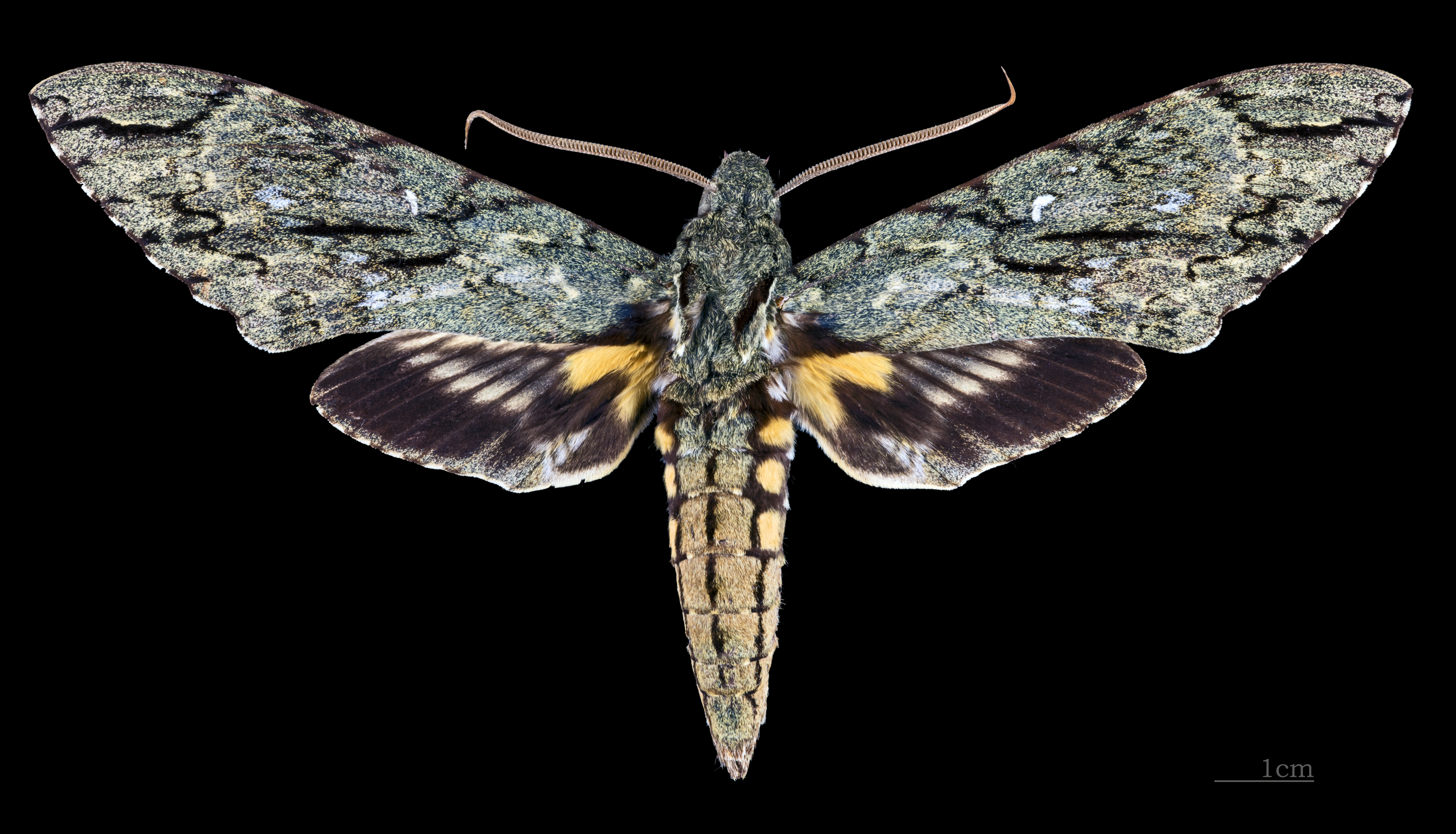 Amphonyx lucifer - Dorsal side Collection of the Mathematician Laurent Schwartz